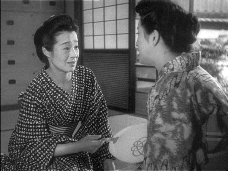 Chieko Naniwa and Michiyo Kogure in Gion bayashi (1953) directed by Kenji Mizoguchi